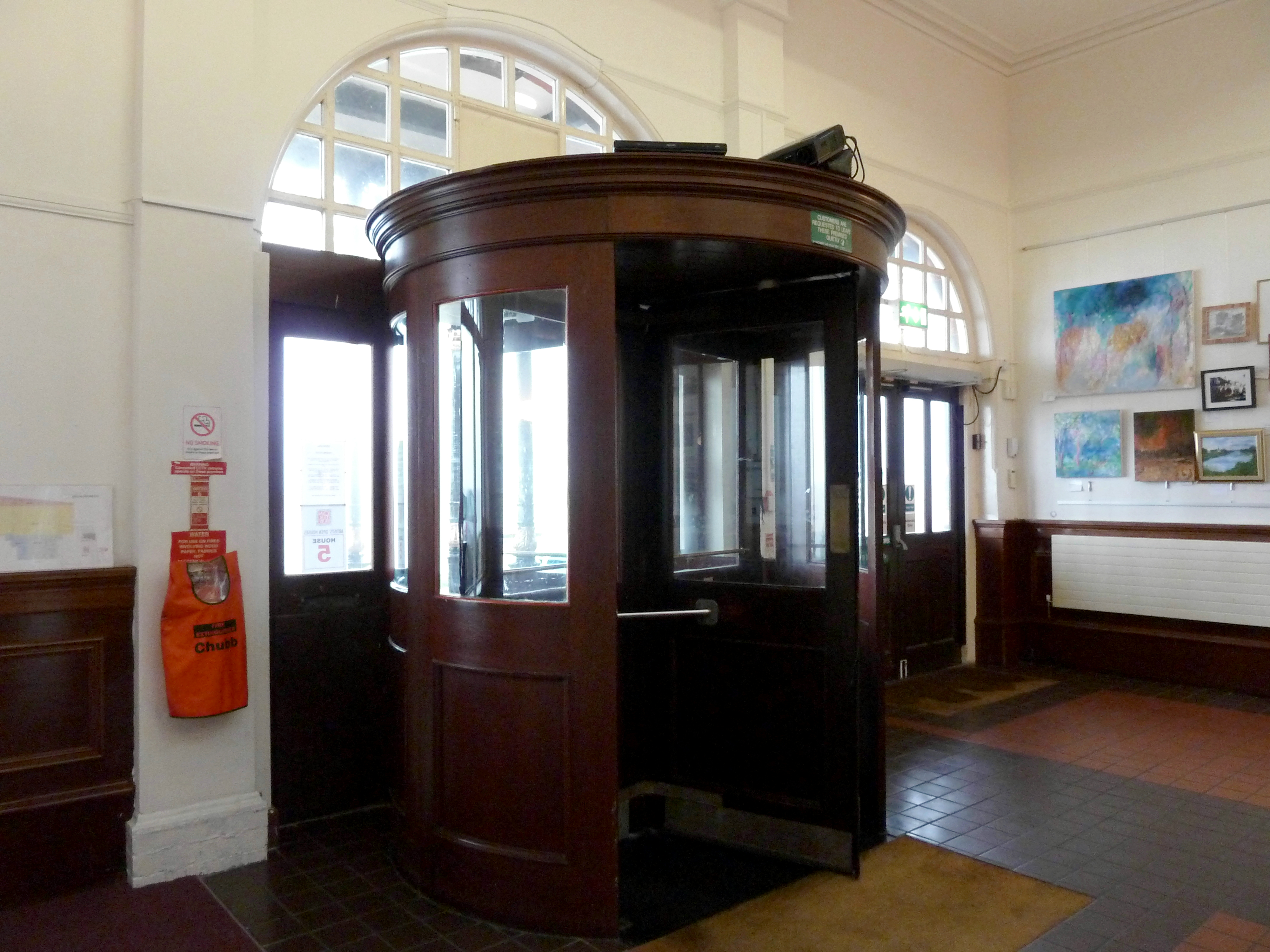 Kings Hall, Herne Bay, Kent England. Vestibule looking north-east towards original doors of 1913.